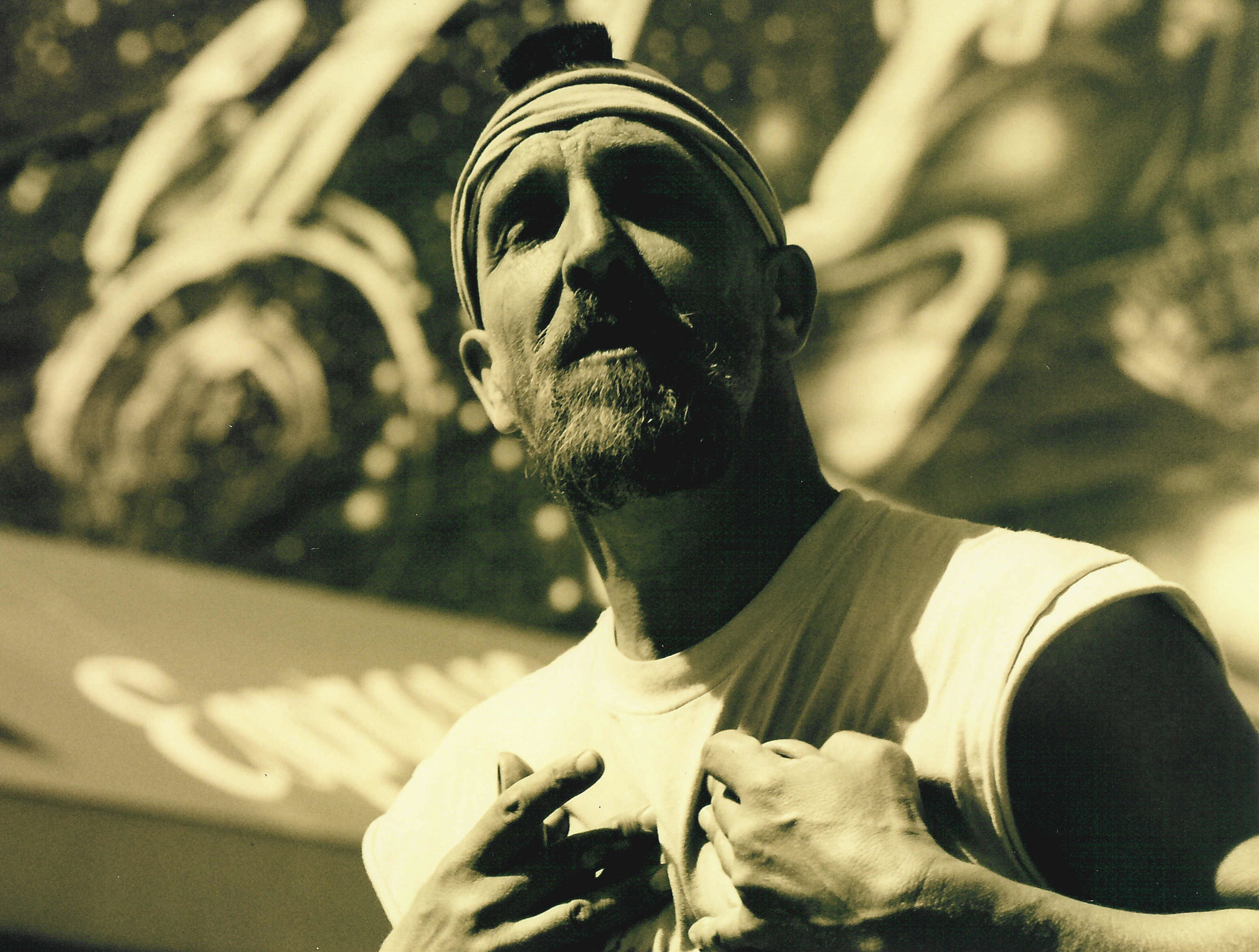 Artis the Spoonman, University District Street Fair, Seattle Washington, 1995.